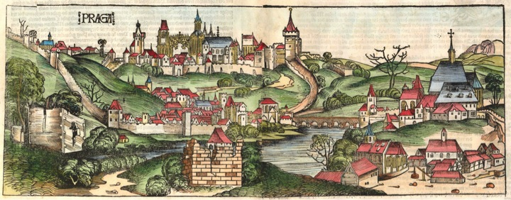 Hartmann Schedel's Nuremberg Chronicle (Liber Chronicarum) was published in two editions, Latin and German, both in 1493. This very early panoramic view of the Bohemian capital of Prague depicts the city from across the Vltava River, and is one of the earliest obtainable views of Prague. The Prague Castle and St. Vitus' Cathedral are illustrated inside the city walls. Above the map is German text